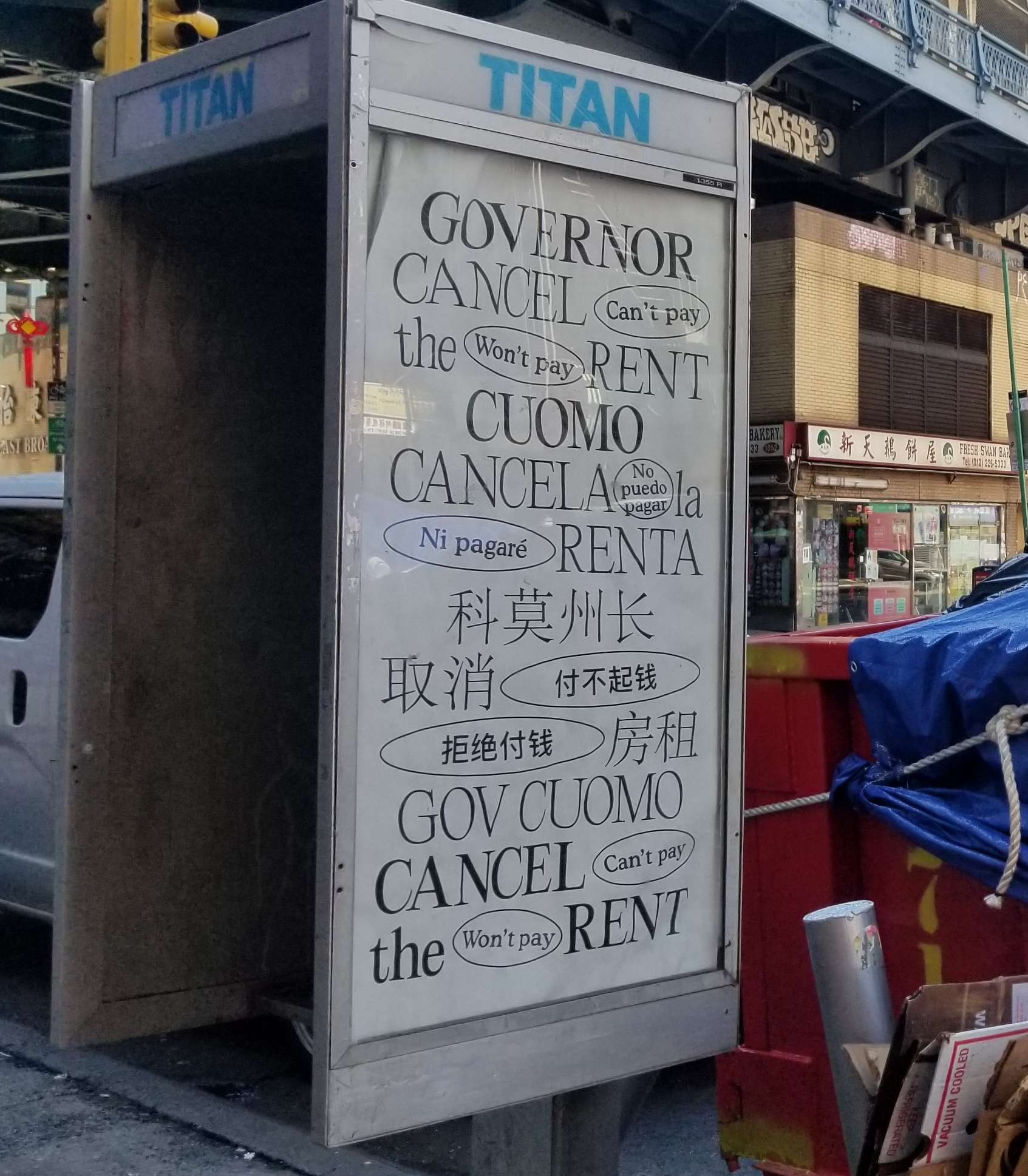 Cancel rent poster in phone booth. Photo taken in Chinatown, NYC (July 21, 2020), with the Manhattan Bridge in the background.